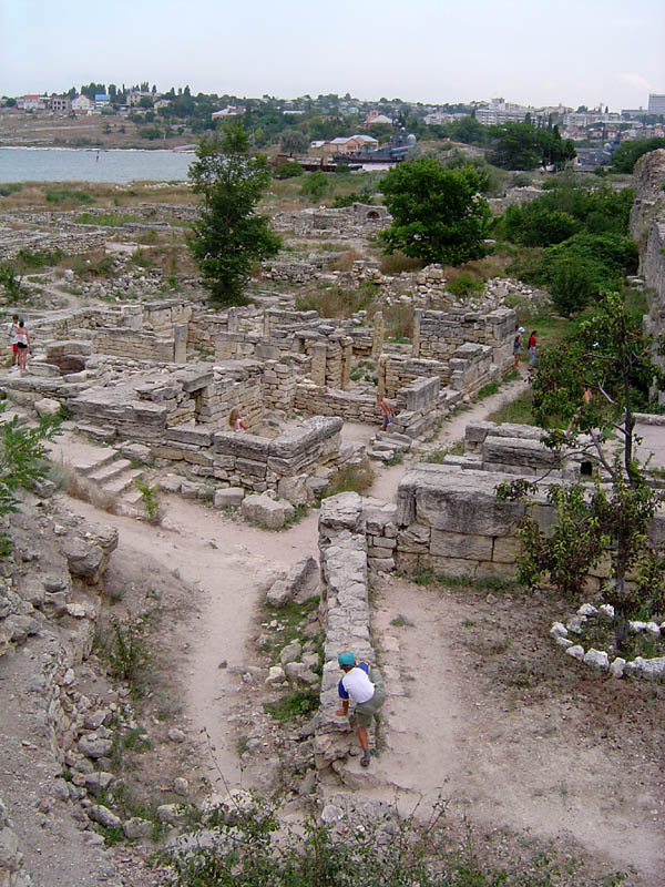 Ruined buildings of the ancient Greek colony of Chersonesos, Crimea